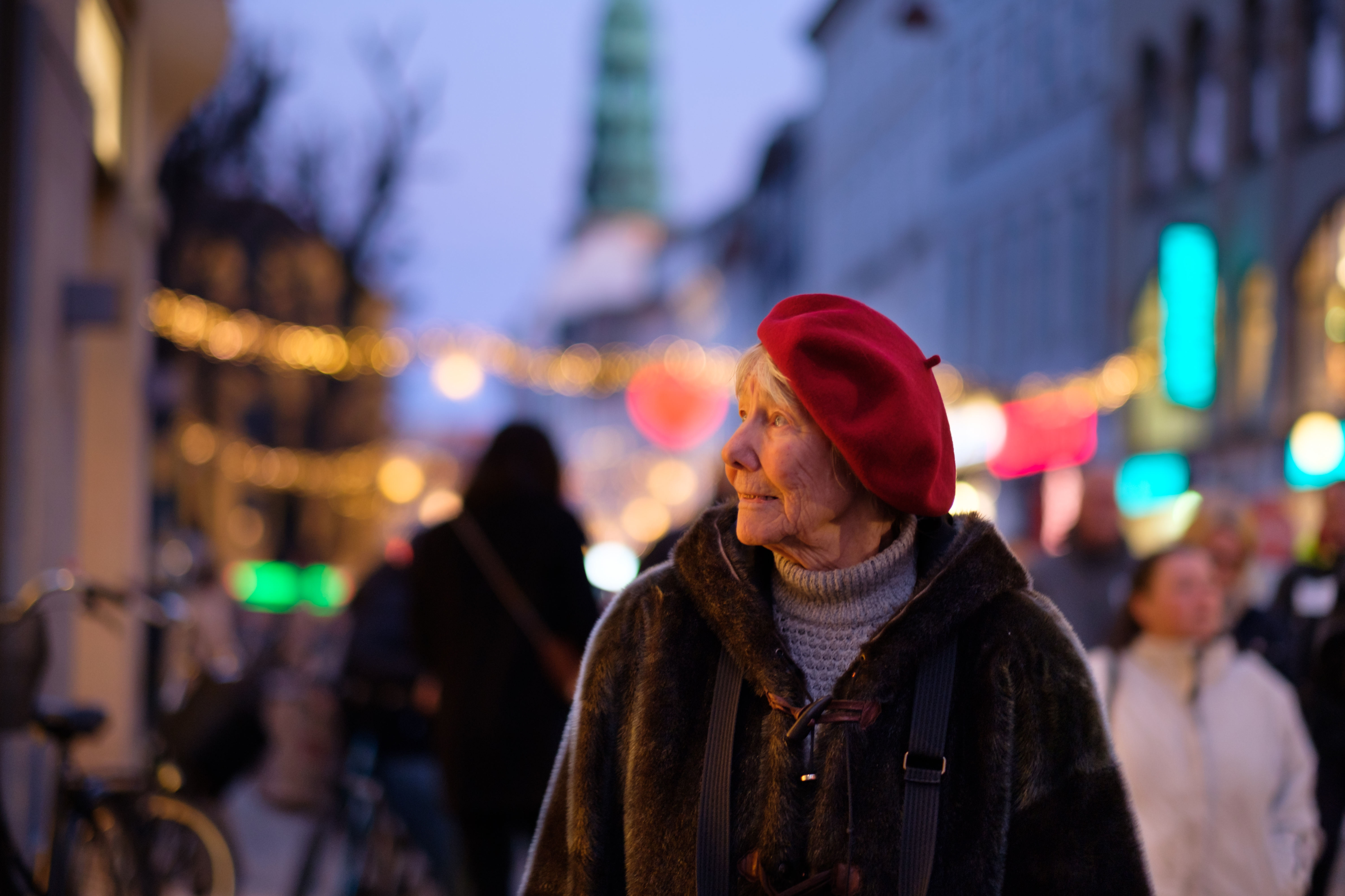 Taken last december in Copenhagen at the main shopping street Strøget. The old lady was looking through the shop windows. Was taken with the Fuji XF 56mm f1.2 lens. Read my blog post here comparing the Fuji XF 56mm f1.2 with the XF 50mm f2.0. The photo is under Creative Commons license, use it as you will for free, just give credit :-) Keywords: christimas, jul, shopping, julehandel, black friday, indkøb, december, old lady, gammel dame, bokeh, Denmark, Danmark, Copenhagen, Købehavn, Fujifilm X-T20, Fujifilm XF 56mm f1.2